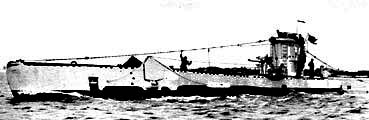 HNoMS Ula (1943), Norwegian submarine of WWII